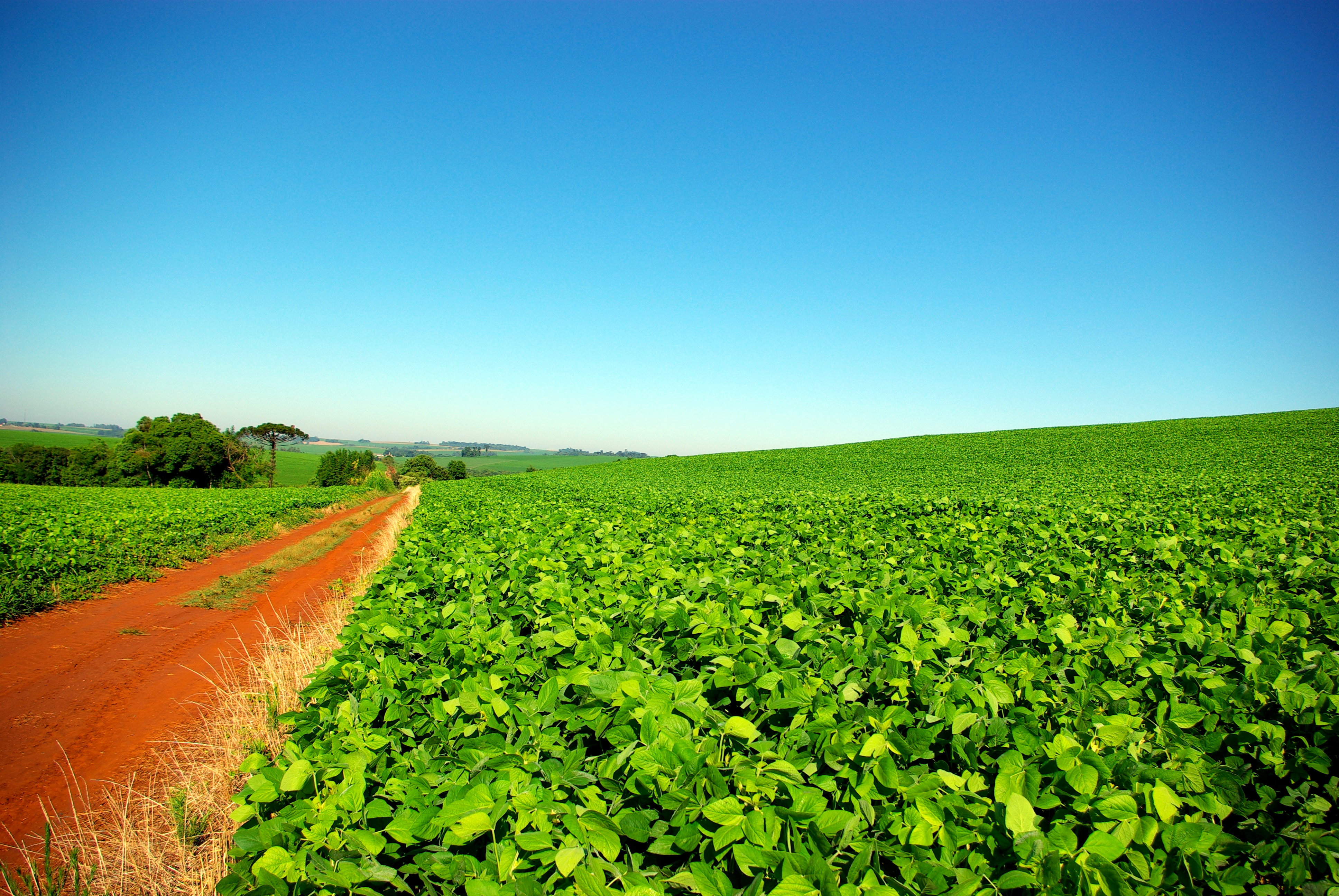 Soybean plantation in Rio Grande do Sul, Brazil.